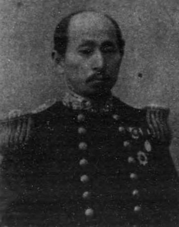 Depicted person: Motoyama Zen